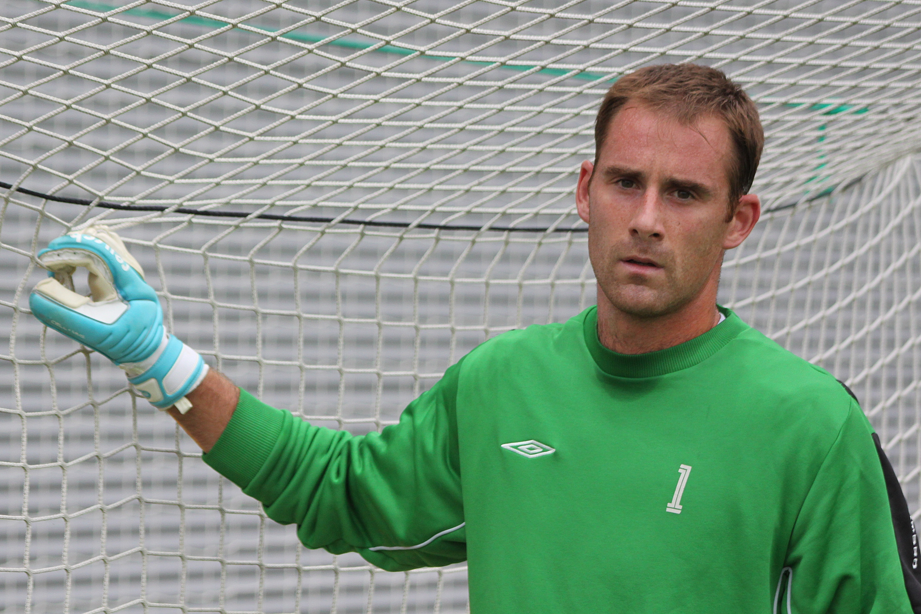 Michal Špit - FK Baumit Jablonec